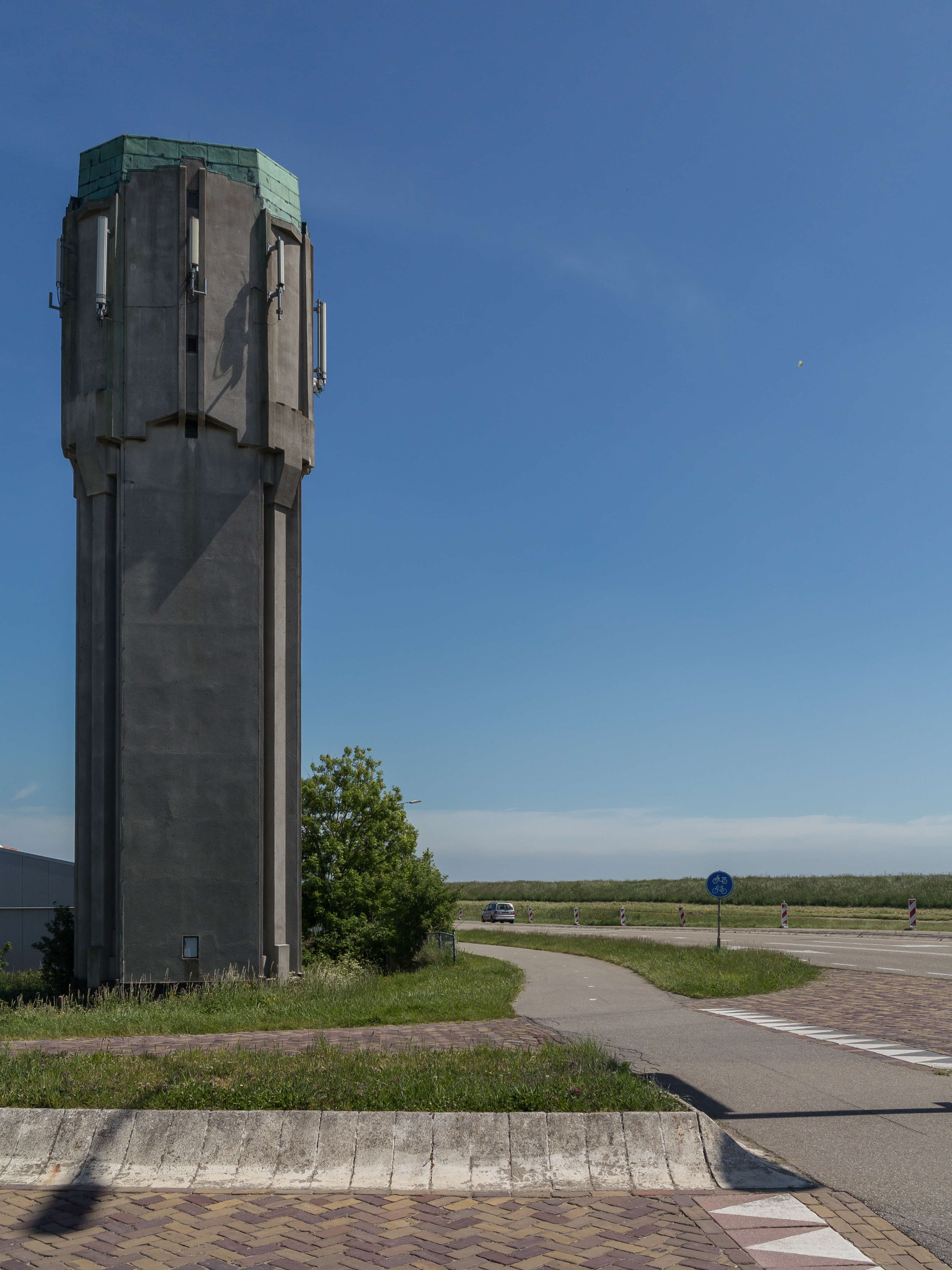 Sint Philipsland, watertower